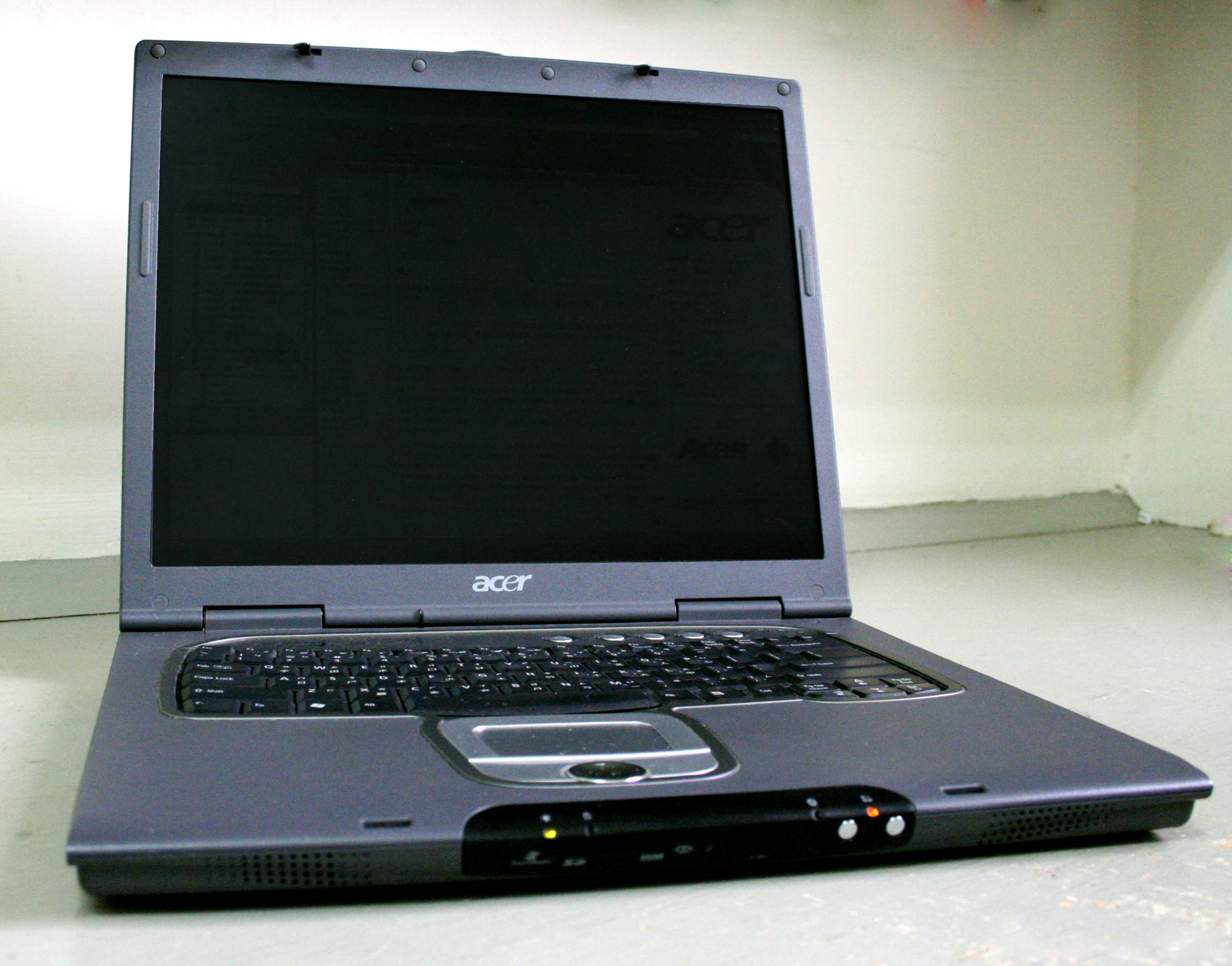 Acer TravelMate 8004 Notebook Computer.